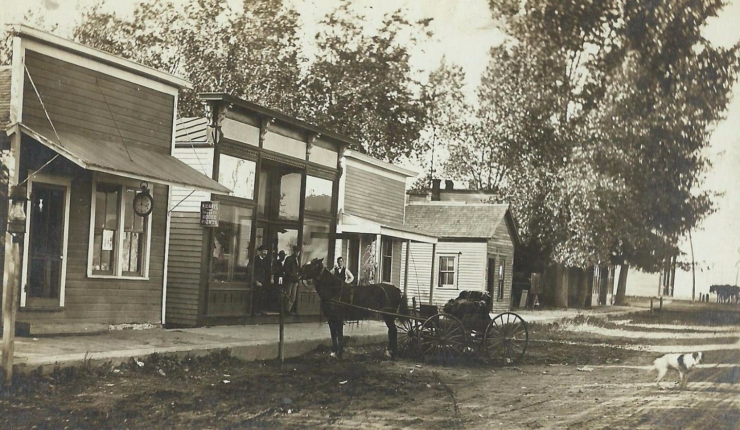 Postcard mailed 15 January 1909 showing various commercial buildings in Delhi, Minnesota, United States